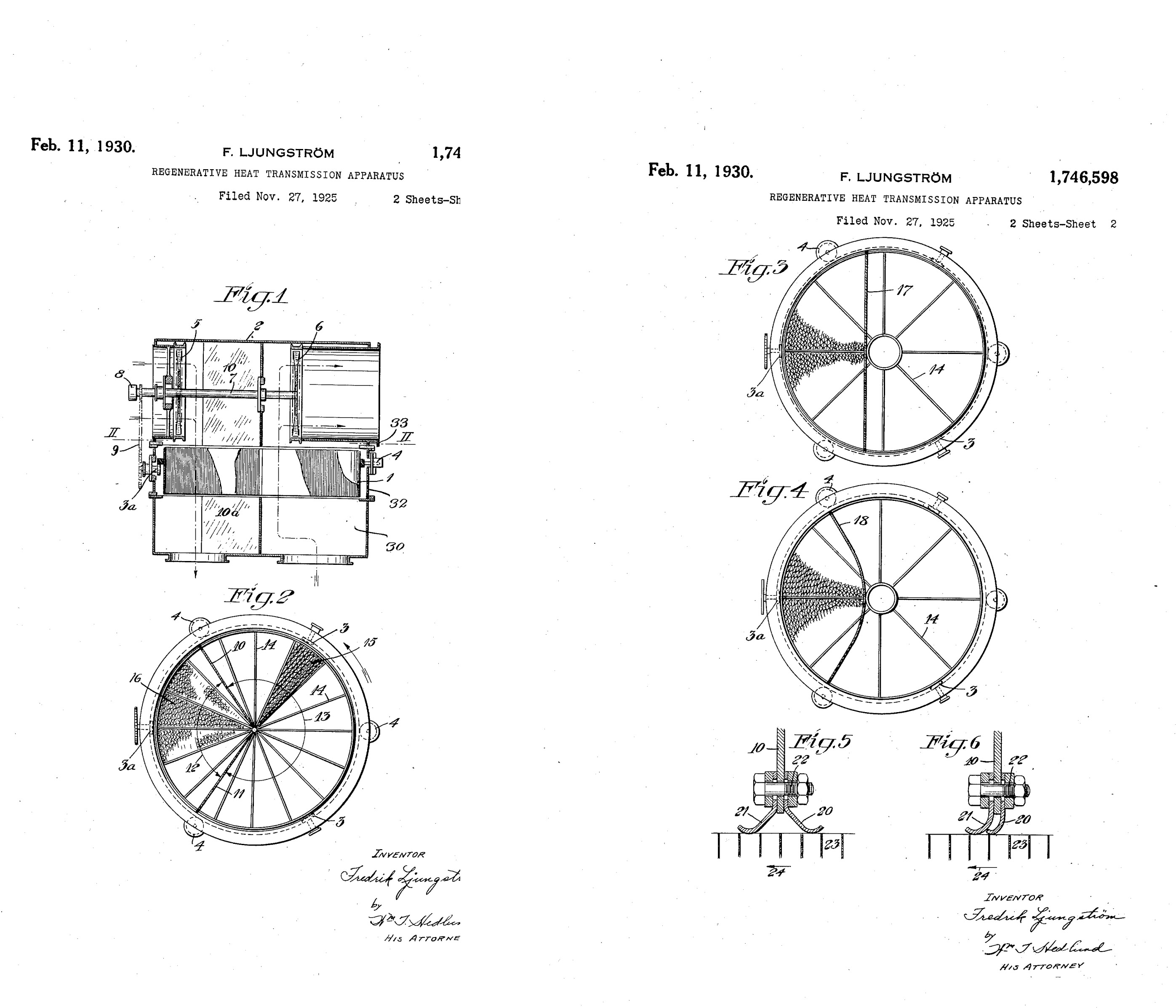 Fredrik Ljungströms patent drawings for the "Regenerative Heat Transmission Apparatus". Application filed at USPTO november 27, 1925. Patent granted Februari 11, 1930.